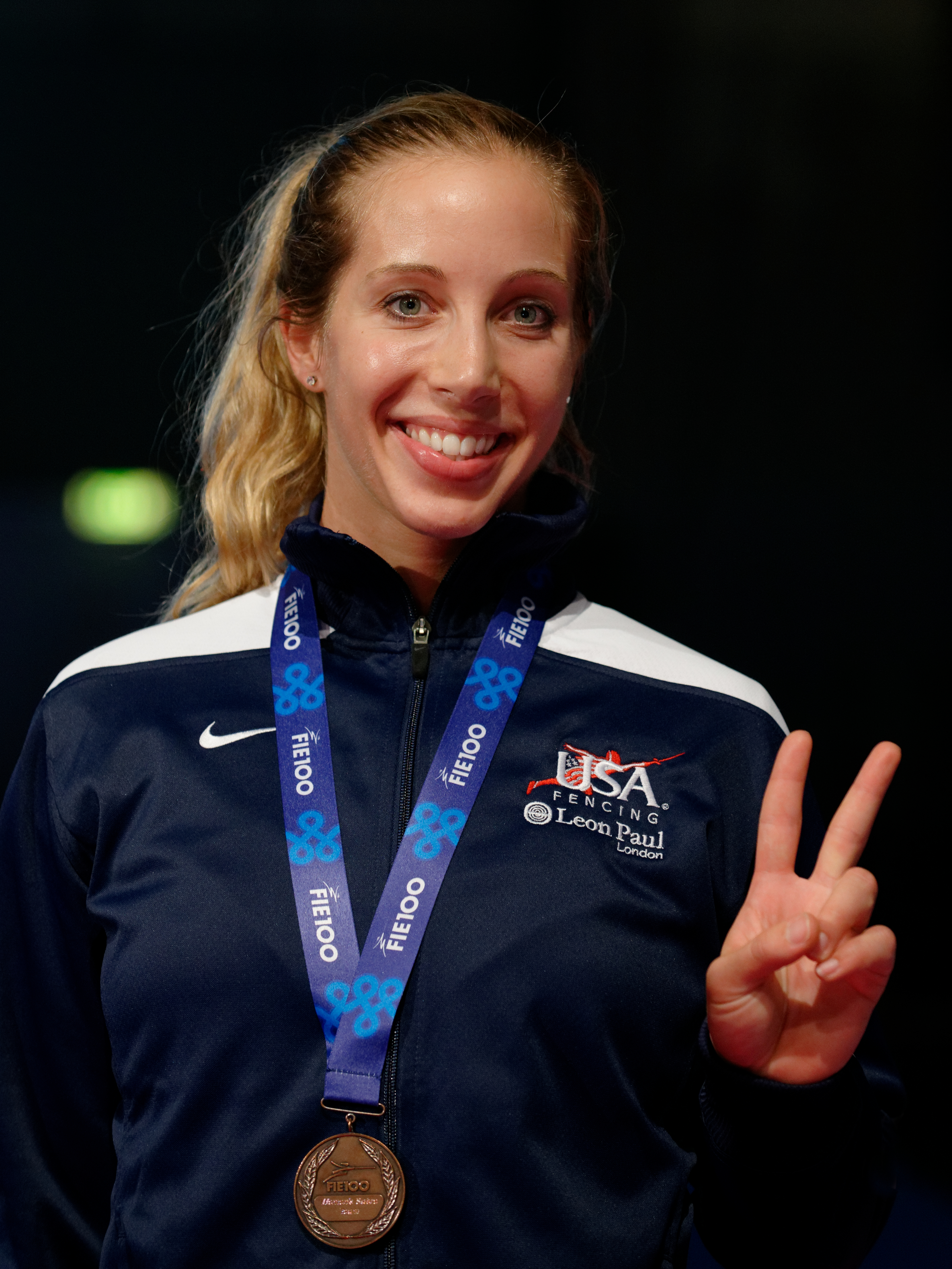 Mariel Zagunis of the United States poses for photographs during the victory ceremony of the women's team sabre event in the 2013 World Fencing Championships 2013 at Syma Hall in Budapest, 12 August 2013.